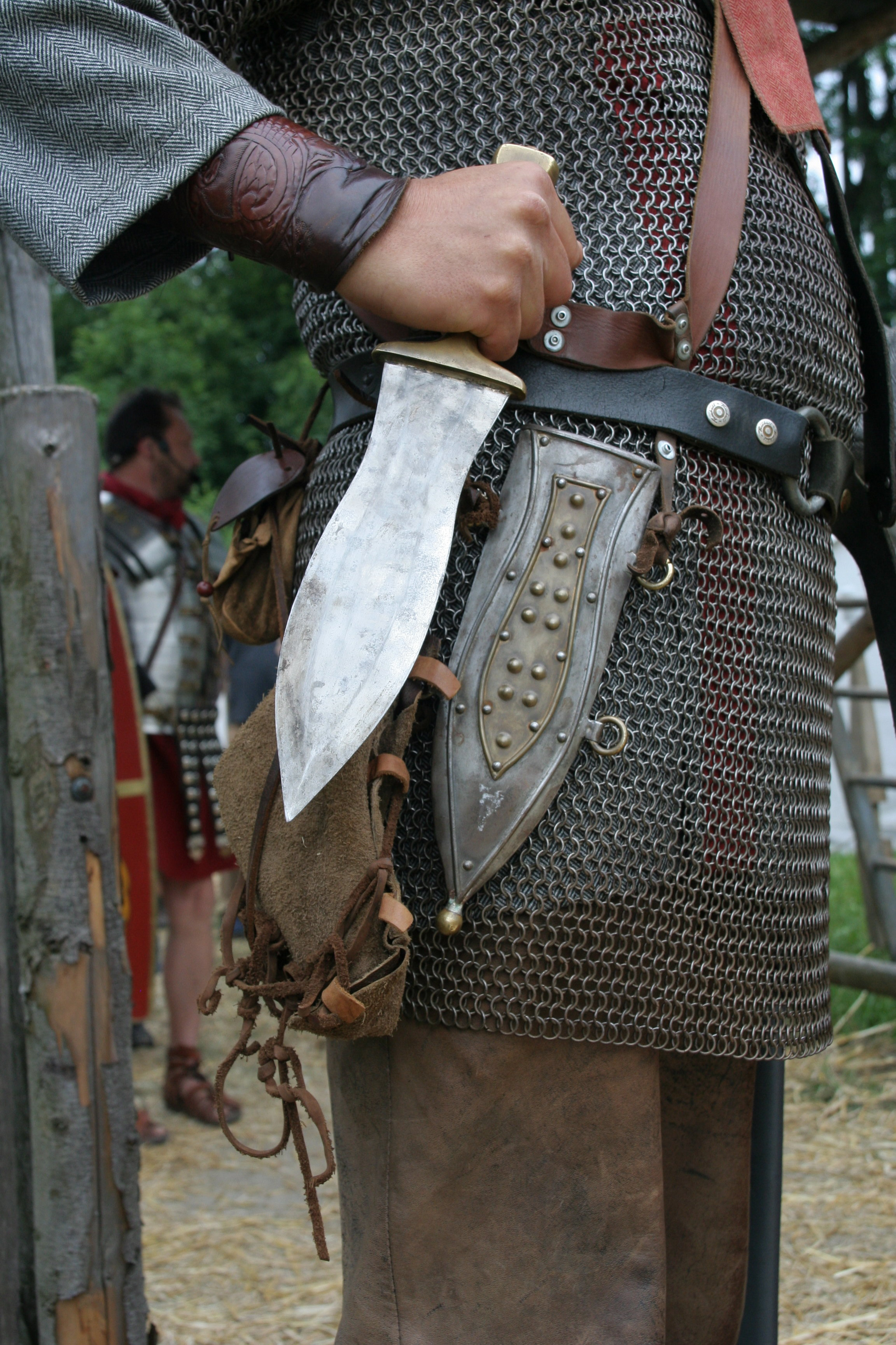 Pugio. The soldier is dressed like a roman soldier 175 a.C. from a northern province Photographed by myself during a show of Legio XV from Pram, Austria